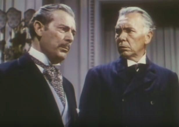 John Mylong (left) & Georges Renavent in The Perils of Pauline - cropped screenshot